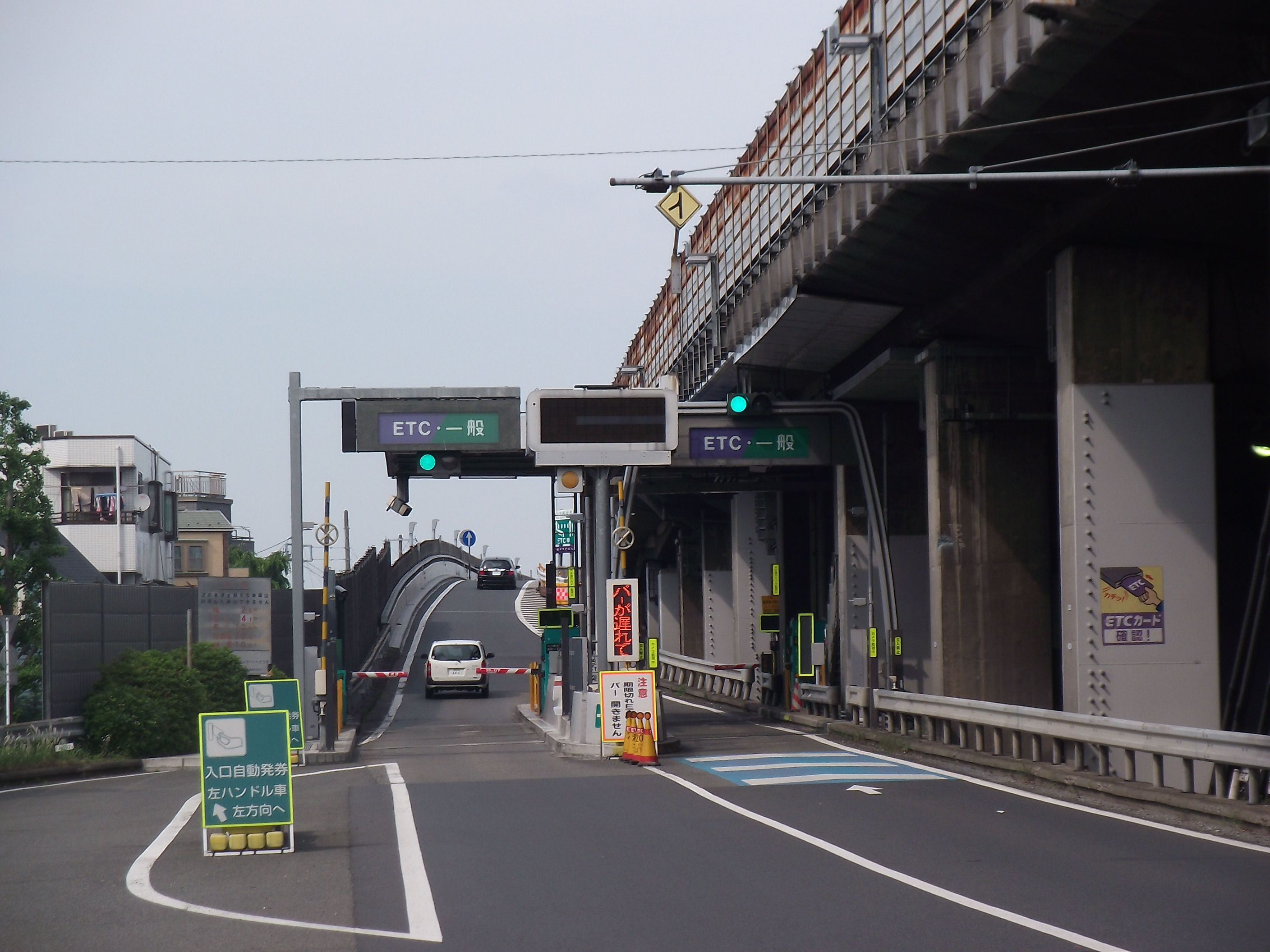 Toll gates at Keihin-Kawasaki Interchange for Tokyo